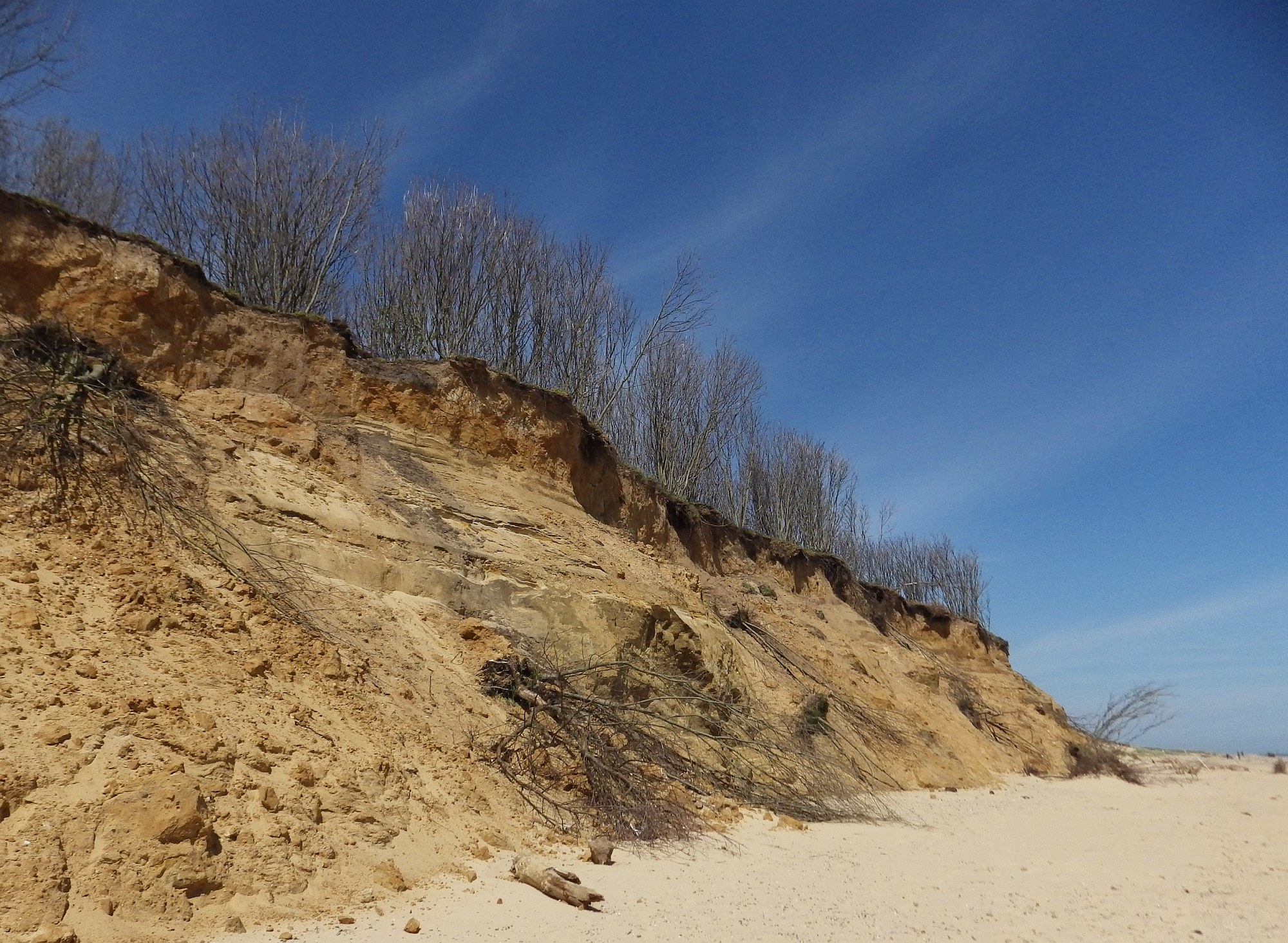 View of Norwich Crag strata exposed in the cliffs at Easton Wood, Covehithe, Suffolk, UK. The sands and gravels were deposited during the Baventian stage, about 1.85 million years ago. The climate was cold at this time, with a grassy heath type vegetation. Fossil shells can sometimes be found in beds at the foot of the cliff, if beach levels are low enough. The cliffs are in the Pakefield to Easton Bavents Site of Special Scientific Interest.